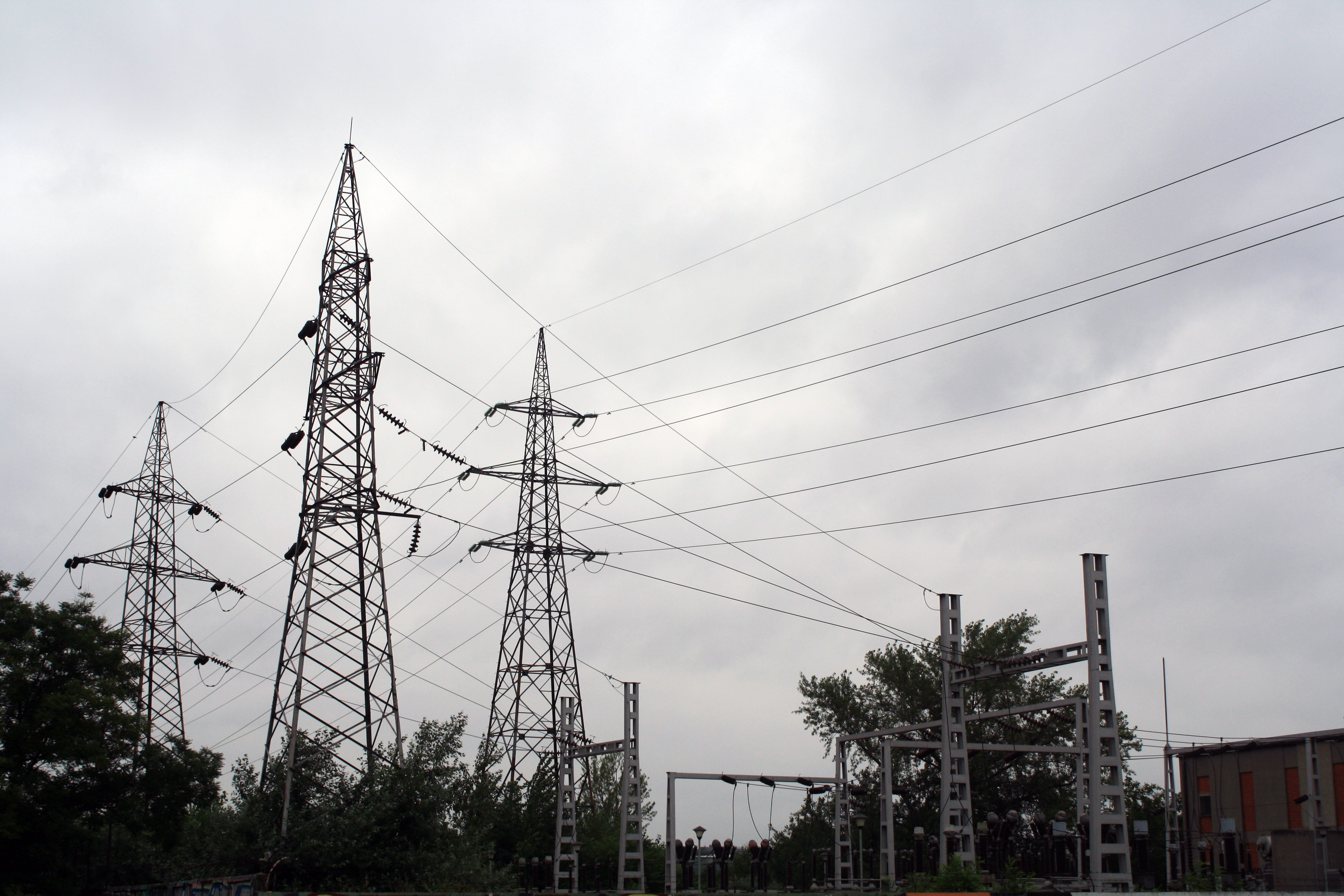 Power transmission line and electrical substation at New Belgrade block 64.